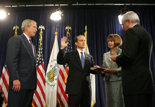 President George W. Bush looks on as White House Chief of Staff Joshua Bolten administers the oath of office to Secretary of Housing and Urban Development Steve Preston, Friday, June 6, 2008 in Washington, D.C. Holding the Bible for the ceremonial swearing-in is Molly Preston, wife of Secretary Preston. White House photo by Joyce N. Boghosian.